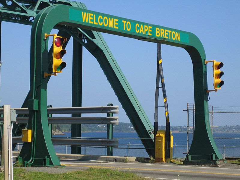 Bridge to Cape Breton Island from Canso Causeway in Nova Scotia. Photo by Skylar Challand, August 2006.